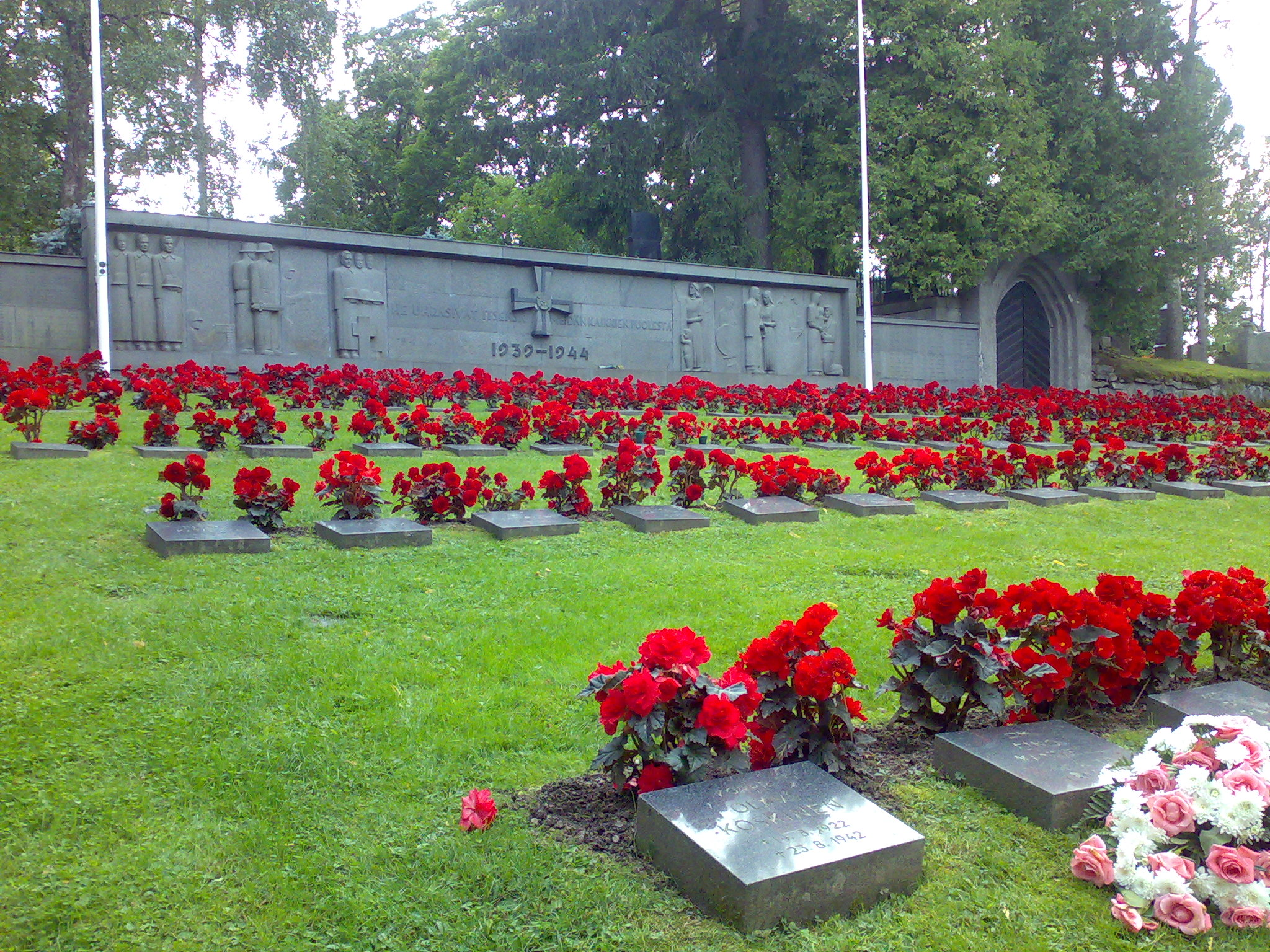 Military cemetary at Nokia church, Finland